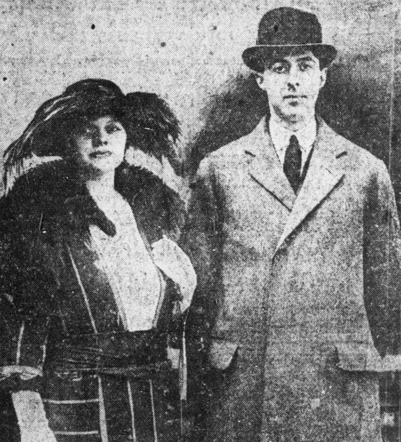 Raymond Henry Norweb (right) and his wife